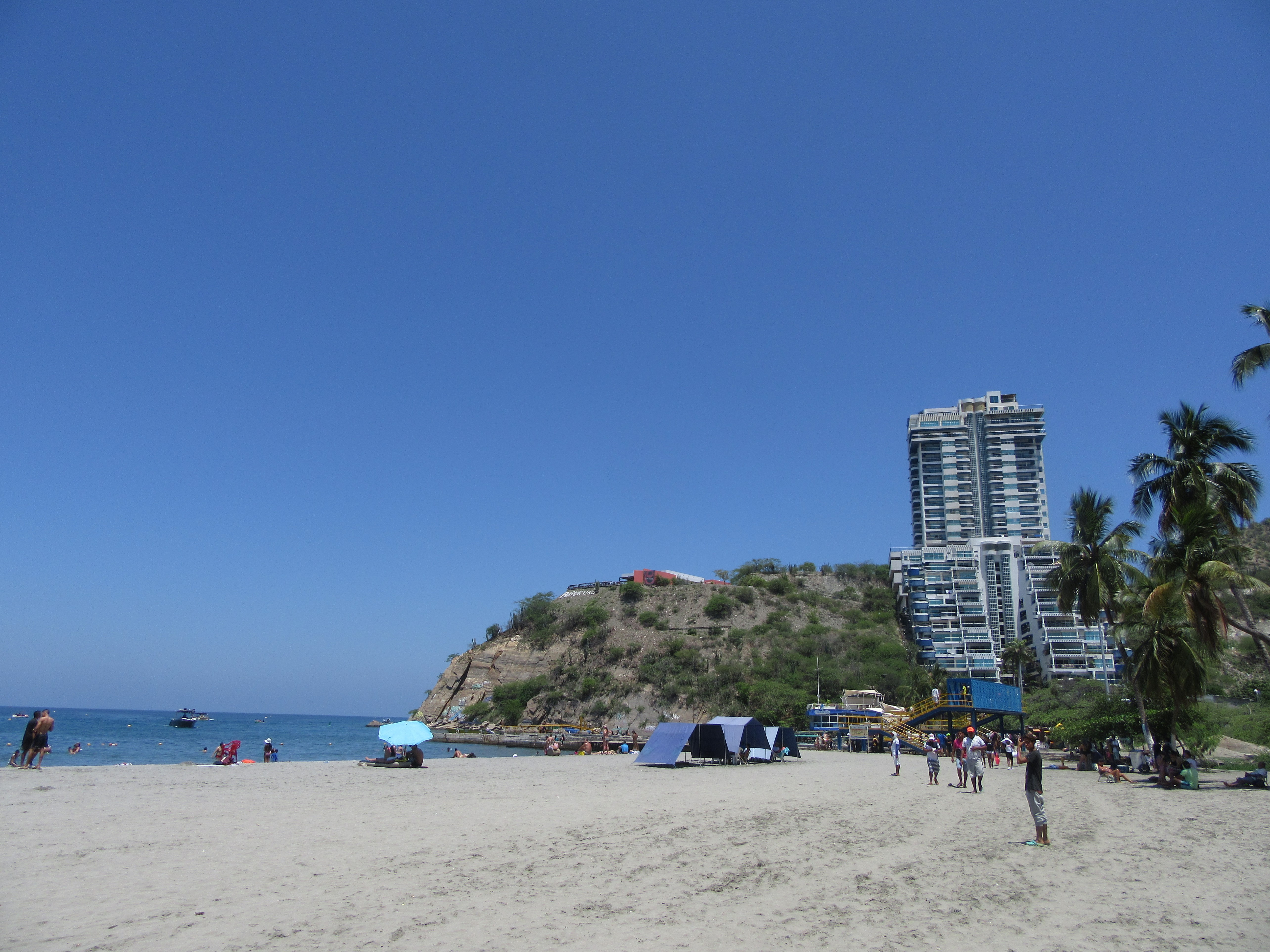 El Rodadero